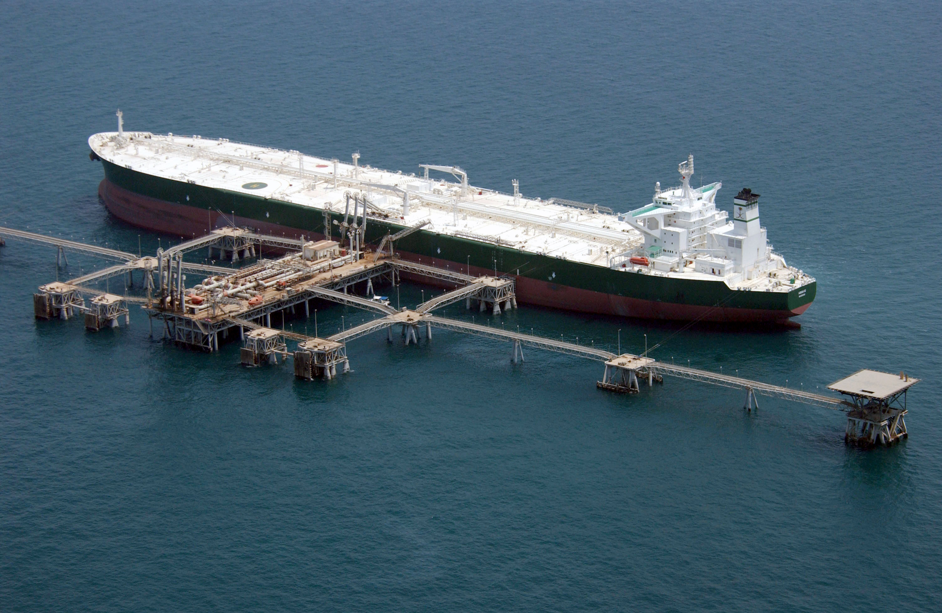 Commercial oil tanker AbQaiq readies itself to receive oil at Mina-Al-Bkar Oil terminal (MABOT) an off shore Iraqi oil installation. The supertanker AbQaiq is the first commercial vessel to receive exported Iraqi oil as an off shore customer since 1991, outside of the United Nations' Oil-For-Food program. AbQaiq is scheduled to take on an estimated 2 million barrels of crude oil. U.S. Navy and coalition forces are helping to provide security, enforcing an exclusionary perimeter around the terminal. IMO Number: 9247182 MMSI Number: 311284000 Callsign: C6SD4 Length: 334 m Beam: 59 m